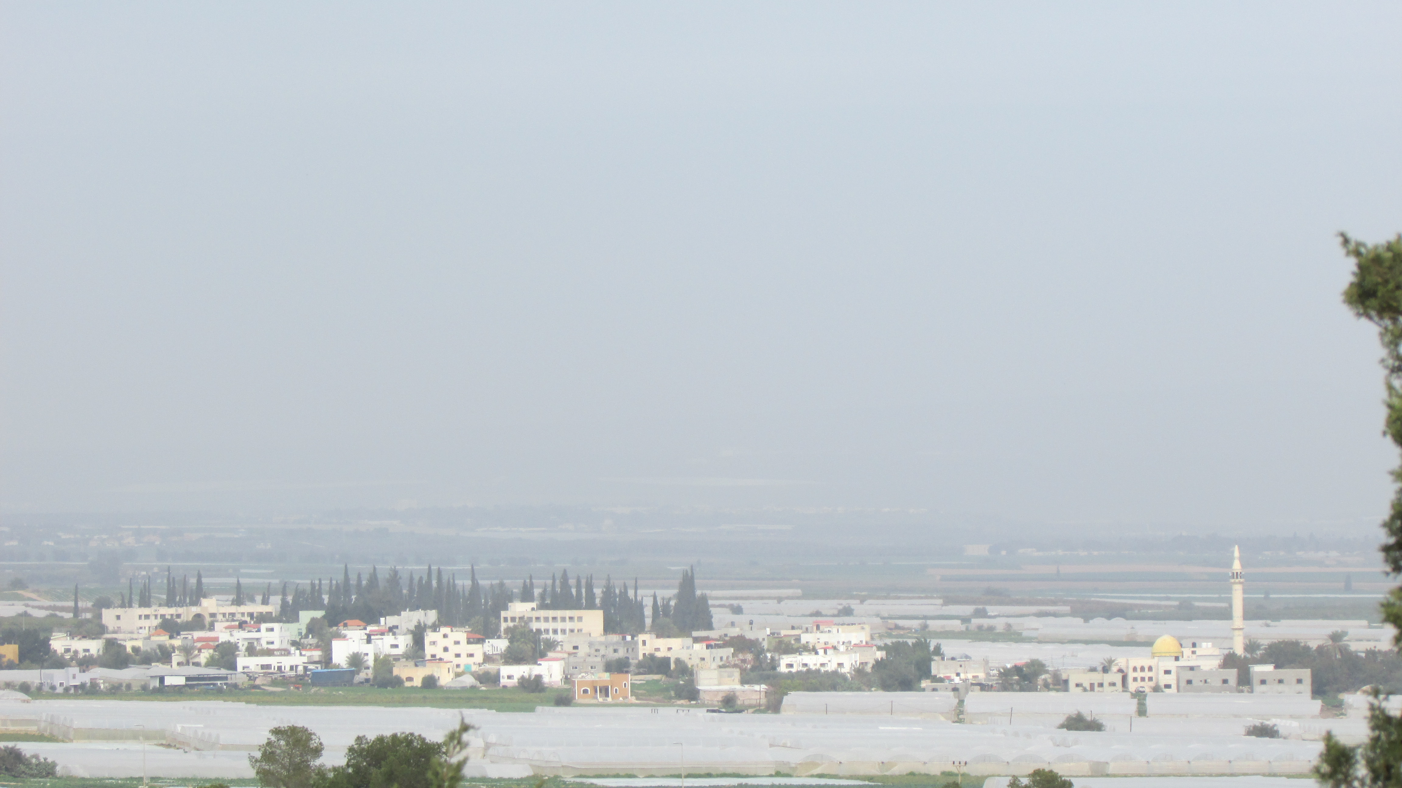 Ein al-Beida. On google maps it appears as Tel al-shamsiya and Tel al-Bayda